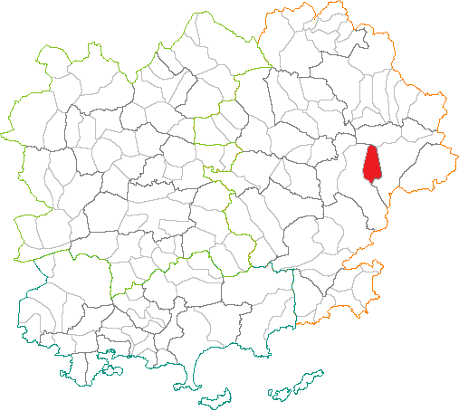 administrative map